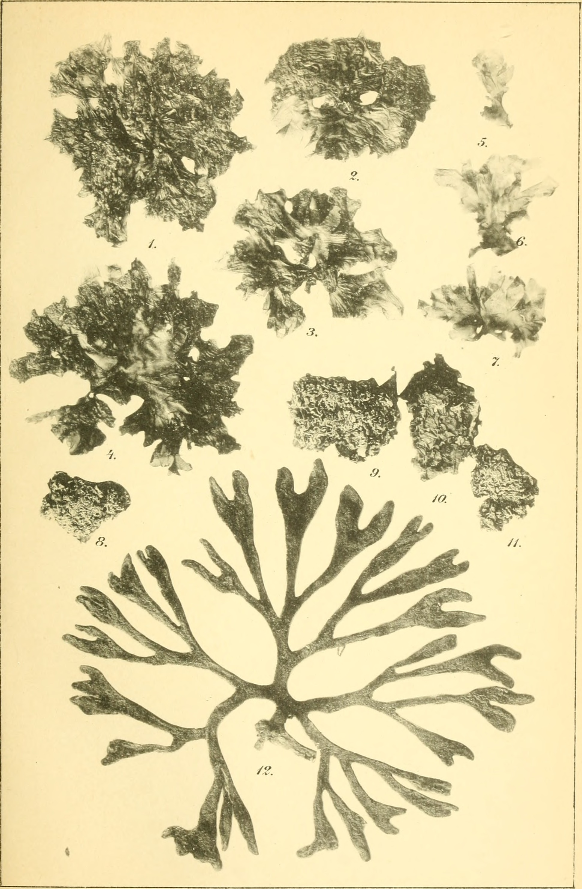 Title: Bihang till Kongl. Svenska vetenskaps-akademiens handlingar Year: 1898 (1890s) Authors: Kungl. Svenska vetenskapsakademien Subjects: Science; Botany Publisher: Stockholm : K. Svenska vetenskaps-akademien Text Appearing Before Image: BAan^ till K. Vet. AkacL. Handl.Bd. ^3. Afd. H. W11. Tafl.2. Text Appearing After Image: J - 7. Ulva coiiolobata ,f'. lypica. 8-11. Ulva conölolaata, f. densa. 12. Codiirm contractvtm.